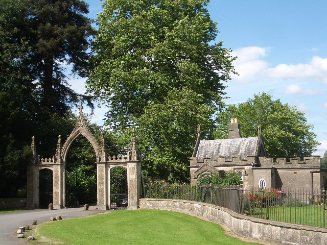 Clytha Park: The Lodge at the main gate